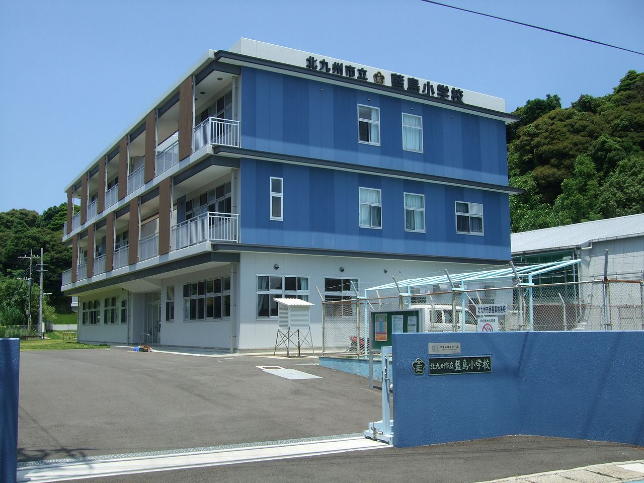 Kitakyushu City Municipal Ainoshima Elementary School, Aino Island, Kokurakita Ward, Kitakyushu City, Fukuoka, Japan.